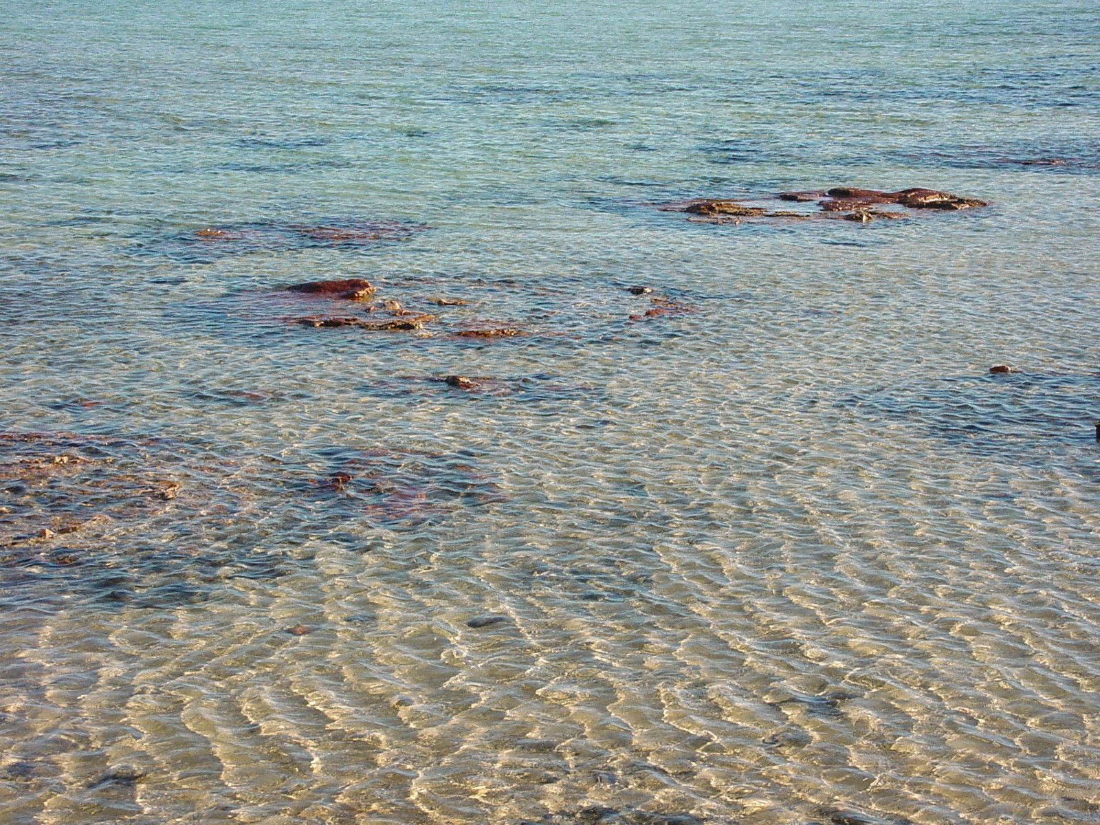 Image title: Shallow water Image from Public domain images website